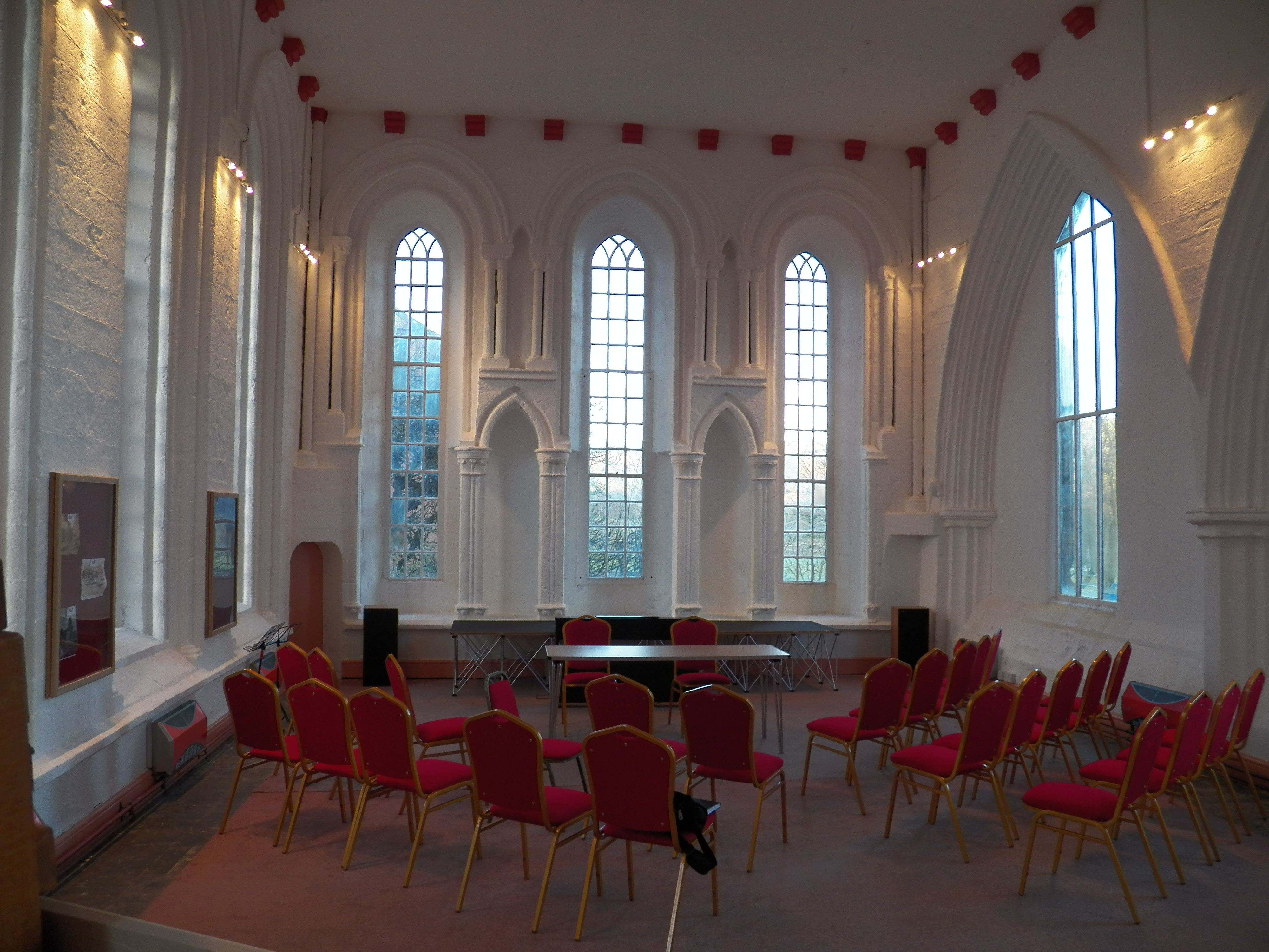 Interior of the monastic chancel of St Bees Priory, dating from about 1190. The building was roofless after the dissolution of the priory in 1539, and re-roofed in 1817 to become the lecture room of the theological college. It was restored in 2012 for use as a parish room.